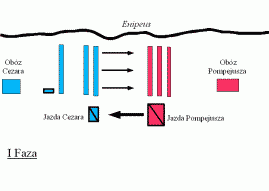 The first phase of the battle of Pharsalus